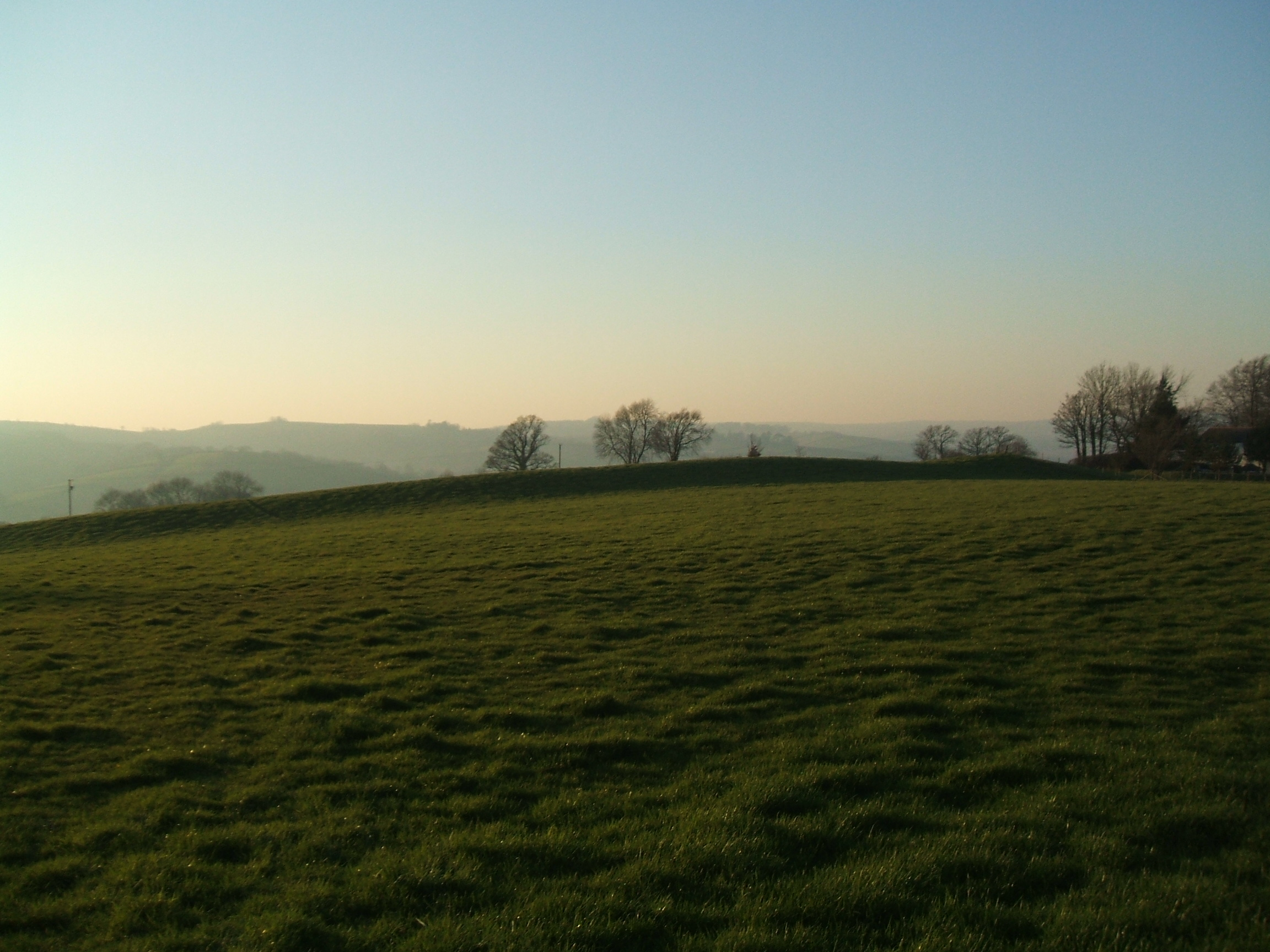 View of eastern (highest) ramparts of Cranmore Castle from Exeter Hill.